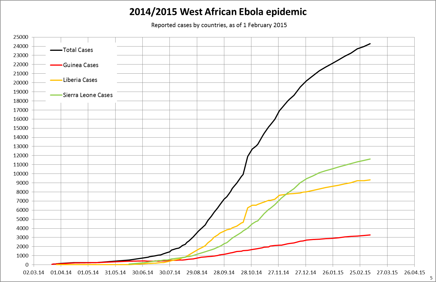 Cumulated Ebola cases taken from Wikipedia. Graph will be updated if new numbers are published. Thanks to User "The Anome" who created a similar graph before.